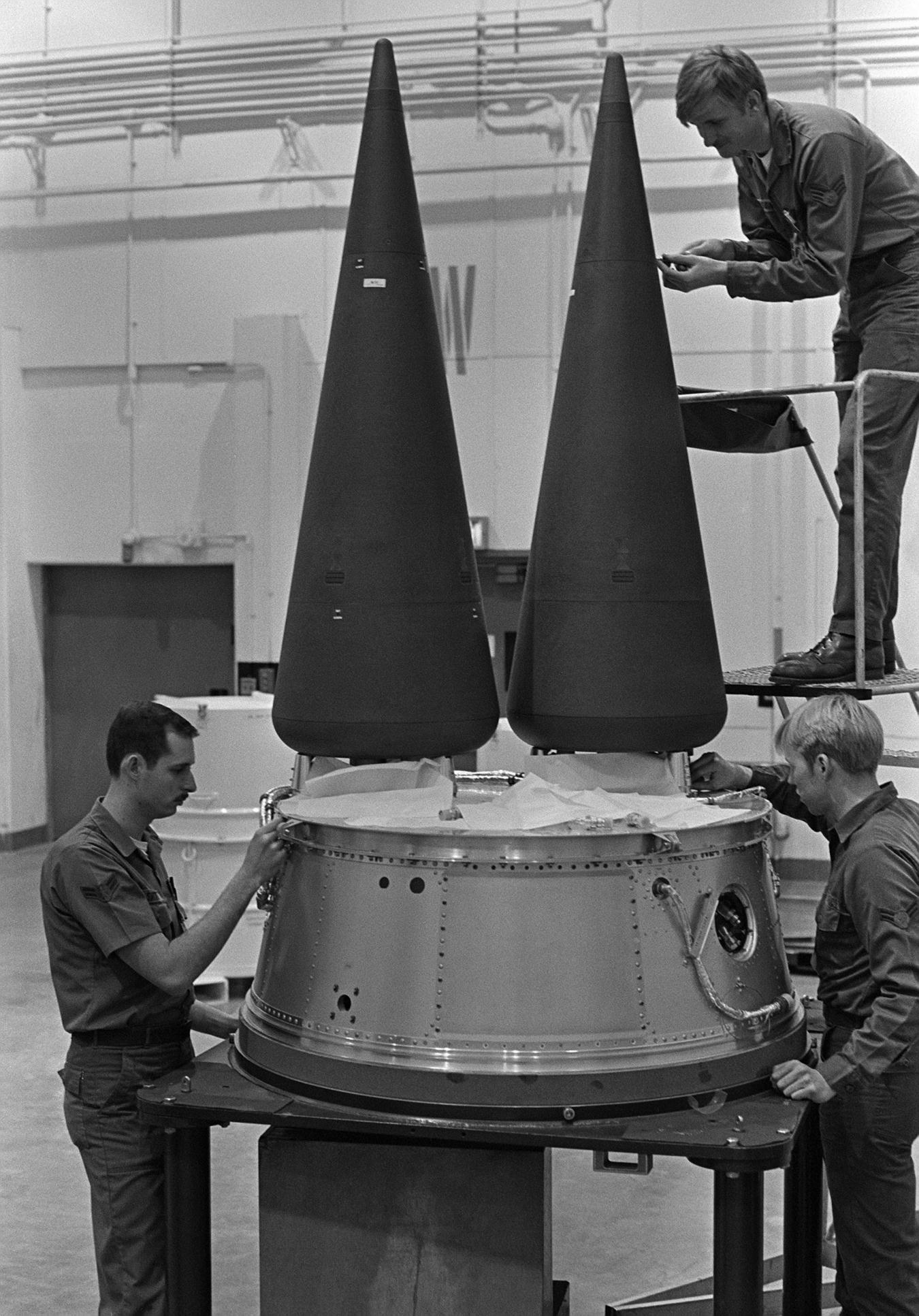 Airmen work on a Minuteman III’s Multiple Independently-targetable Re-entry Vehicle (MIRV) system. Current missiles carry a single warhead.